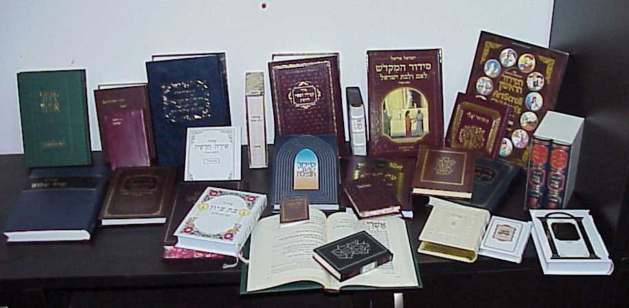 Jewish Hebrew prayer books